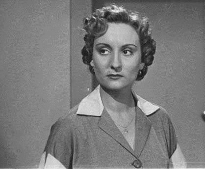 Isabel Pradas- actriz